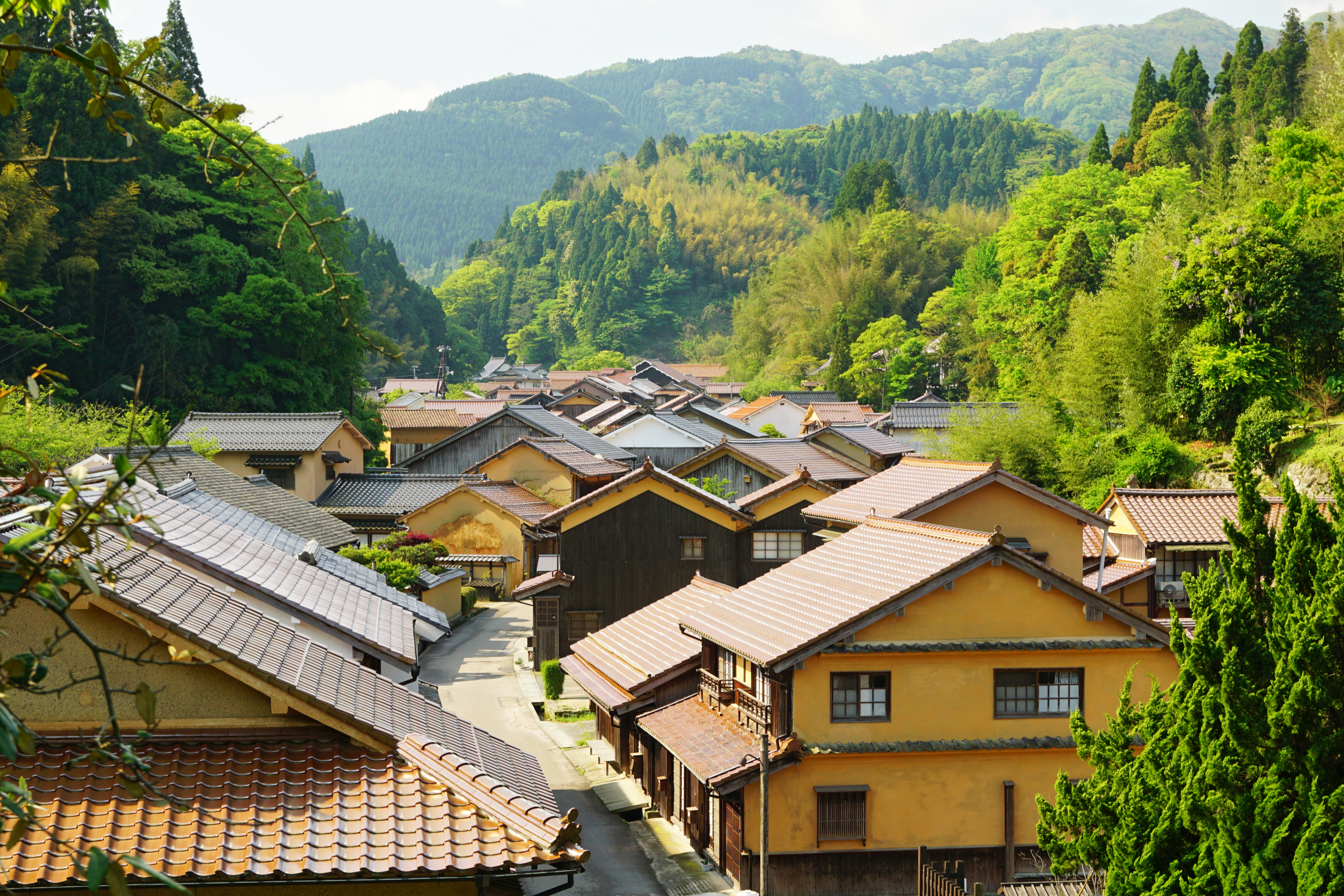 Ōmori Ginzan village in Ōda, Shimane prefecture, Japan. It was registered as part of the UNESCO World Heritage Site "Iwami Ginzan Silver Mine and its Cultural Landscape".